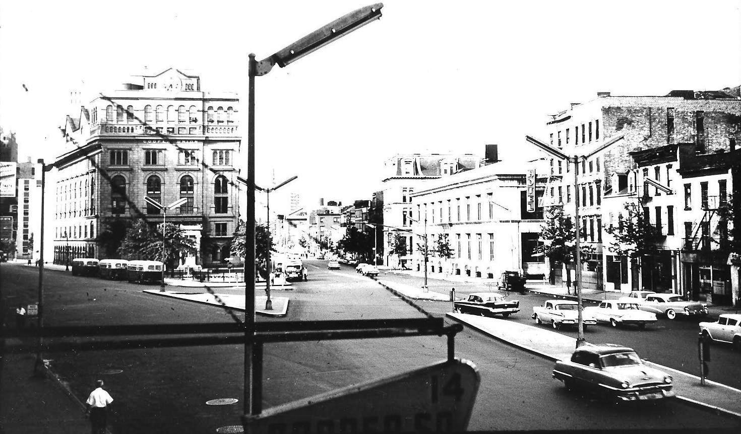 Copper Square, New York, 1957